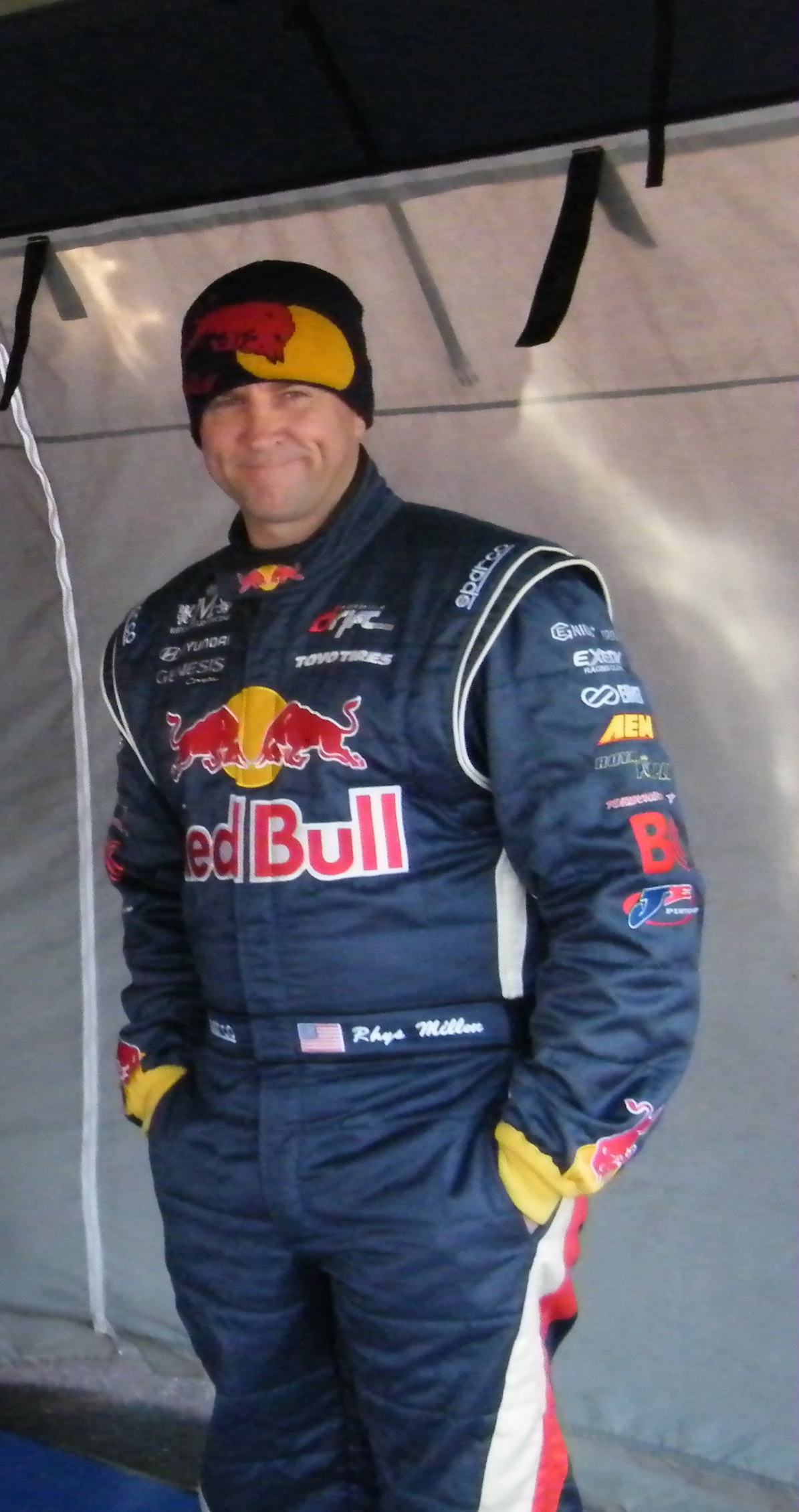 Rhys Millen at the 2010 U.S. RallyCar Rallycross Series Round 3 at New Jersey Motorsports Park.